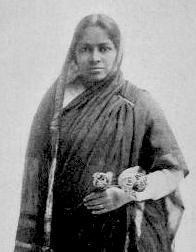 An Indian woman wearing a dark sari with the tail draped over her head and shoulder. She is holding flowers in one arm.